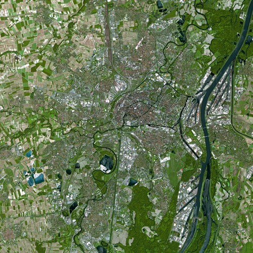 Strasbourg by SPOT Satellite